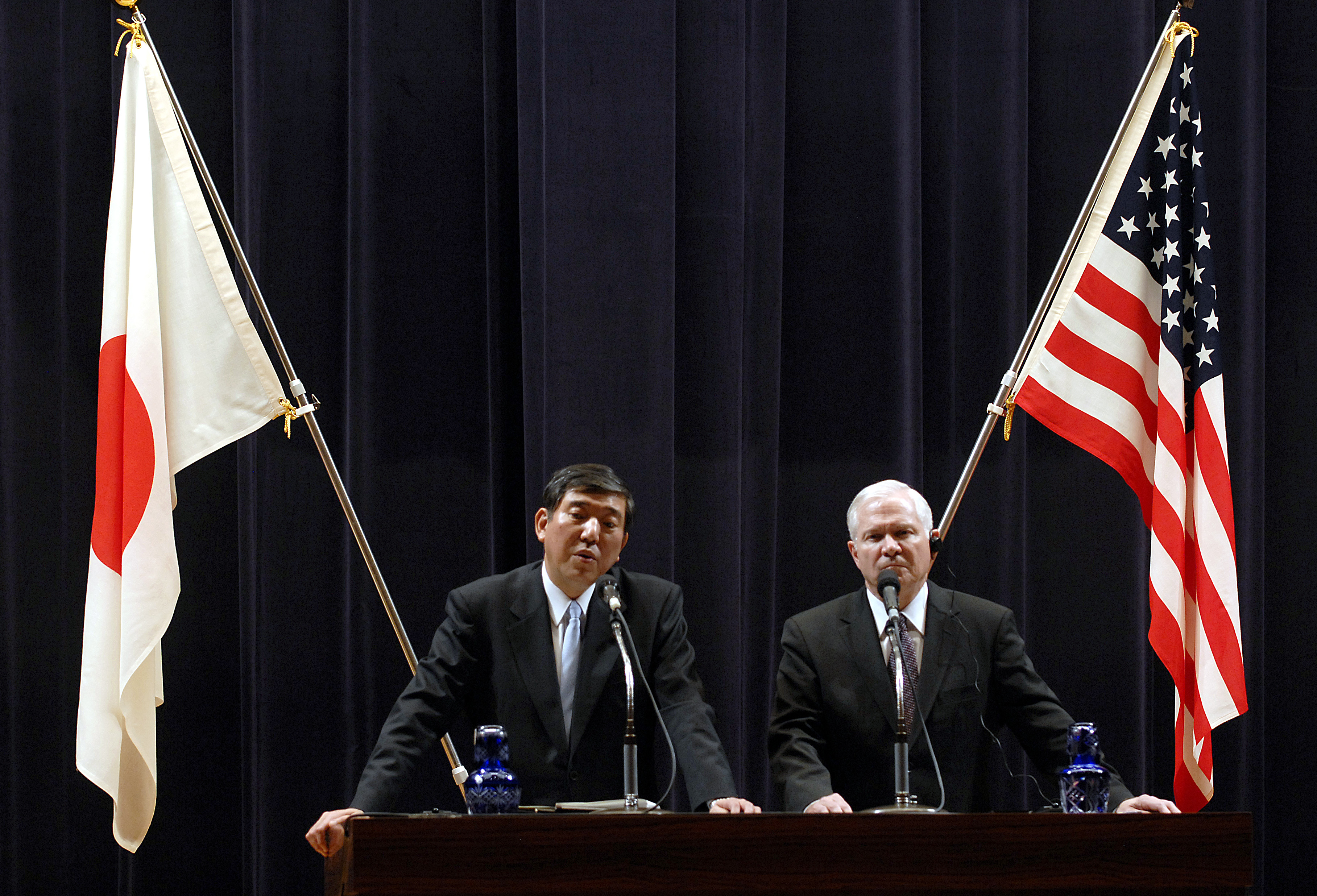 Defense Secretary Robert M. Gates conducts a news conference with Japanese Defense Minister Shigeru Ishiba